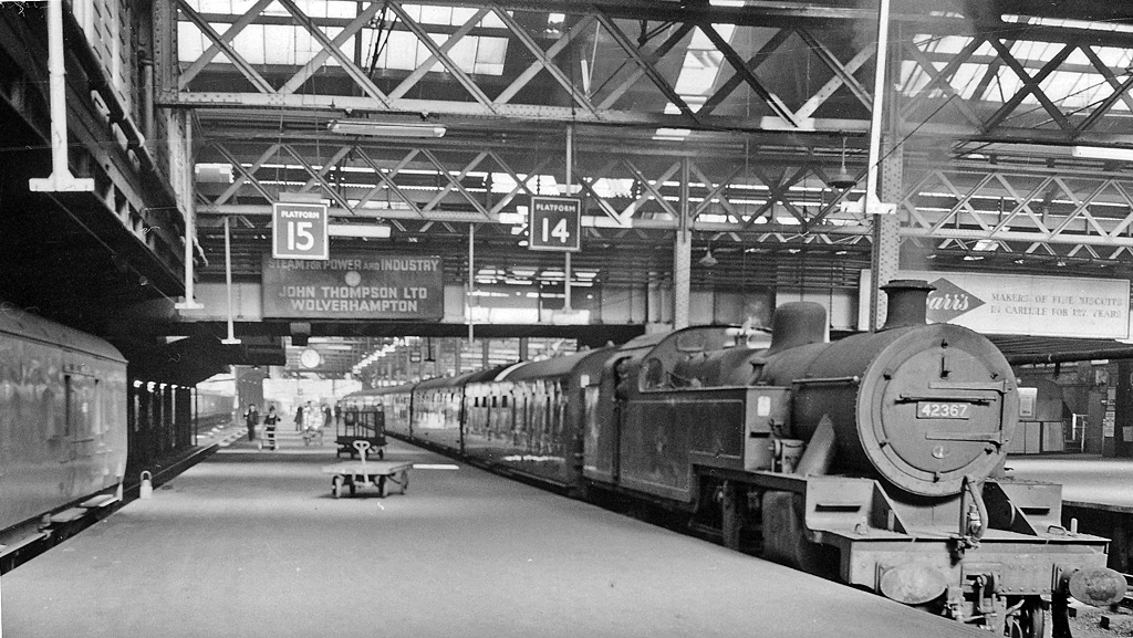 Euston Station, departure Platforms 14 and 15, with the empty stock of a Down express. View NW from near the buffer-stops outward; ex-London & North Western London terminus of the West Coast Main Line. This was the great old, rambling station not long before it was rebuilt in 1966. The main Departure side (Platforms 12-15) were separated by various structures (including the Great Hall) and local platforms from the Arrival side well away on the east side. The stock has been brought in from Willesden by LMS Fowler 4P 2-6-T No. 42367.